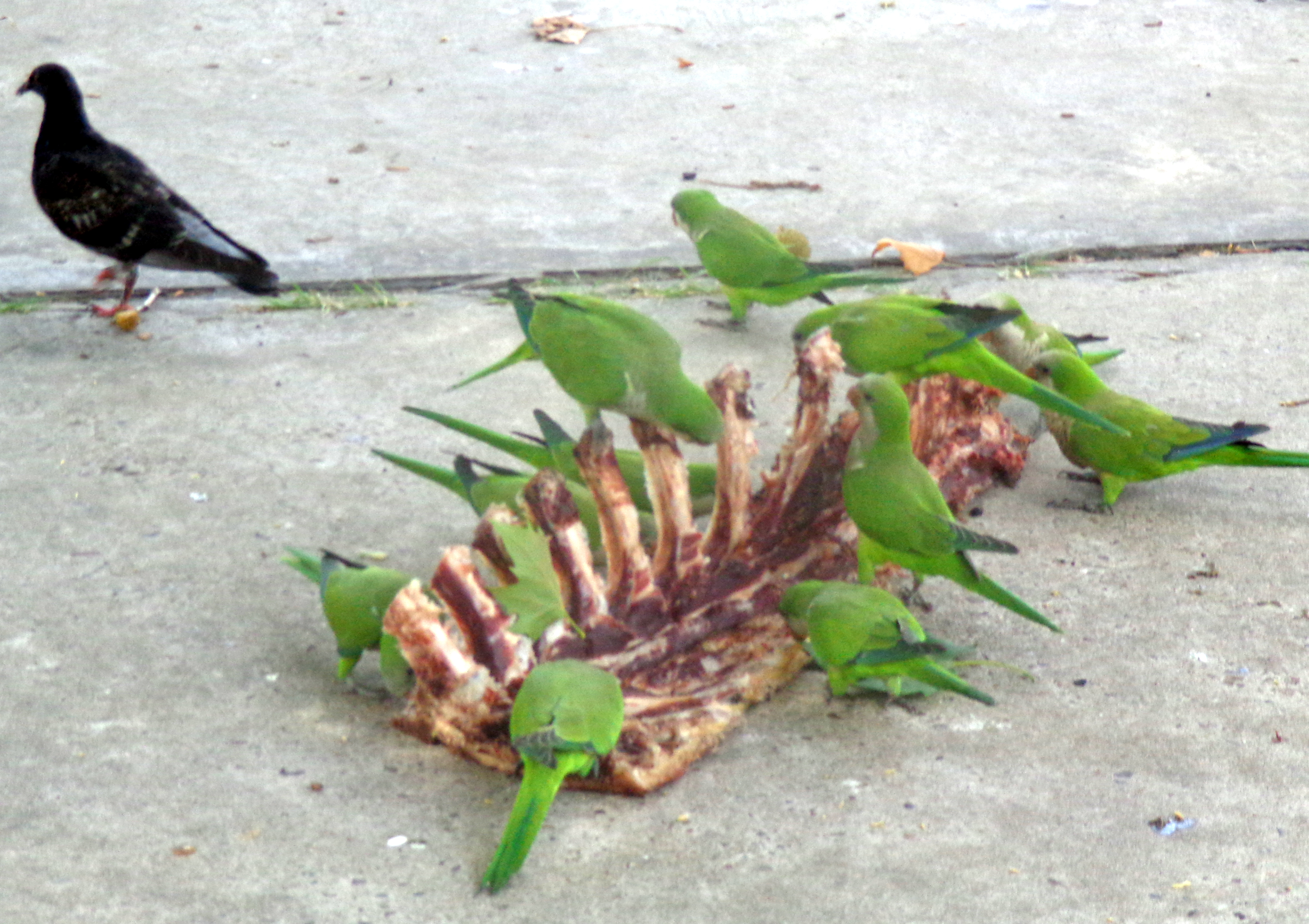 Parrot eating meat in Olivos, Buenos Aires, Argentina